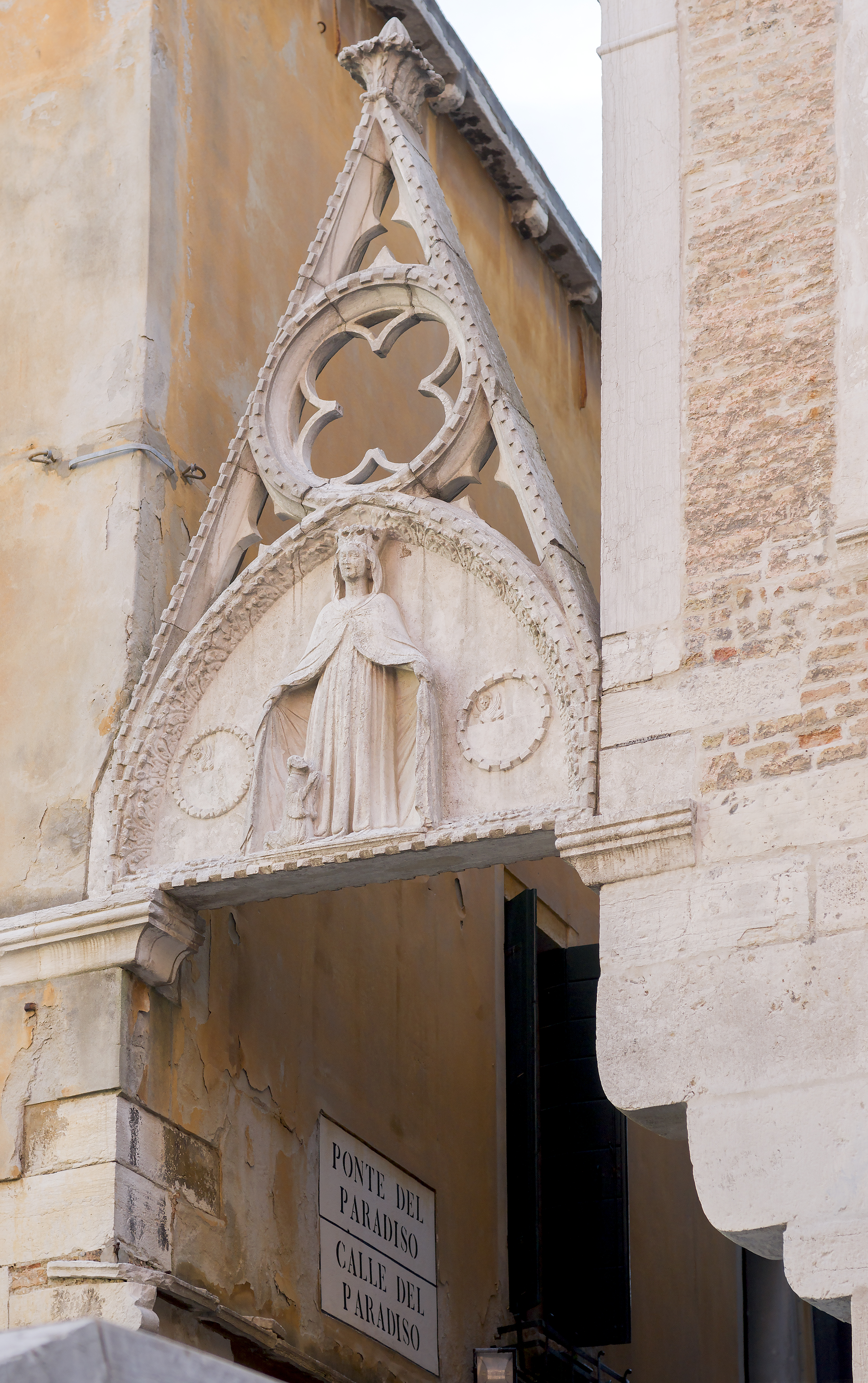 Madonna Ponte del Paradiso. Gothic arch at the Bridge of Heaven, with bas-relief of Our Lady of Mercy - Venice